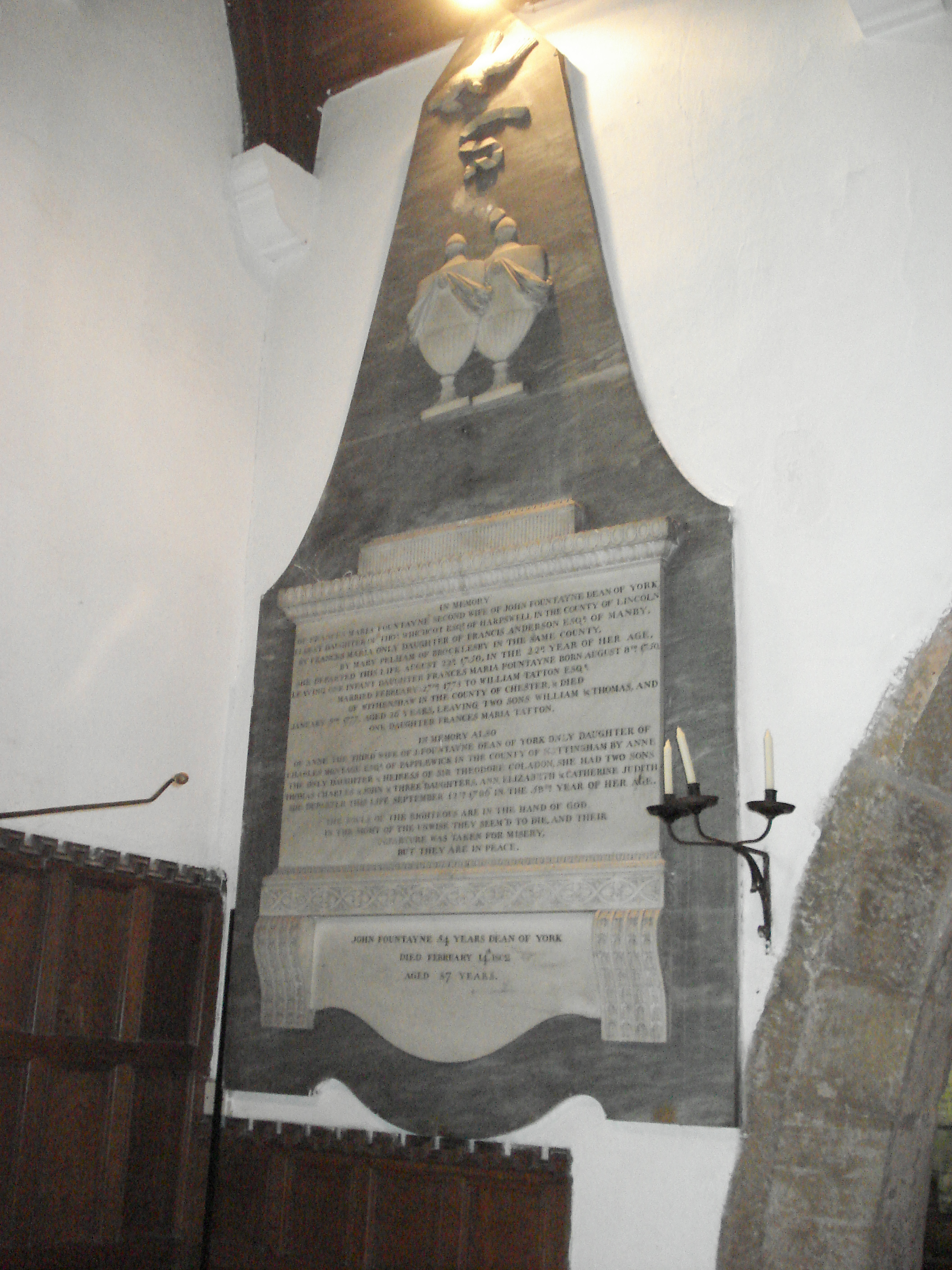 Memorial to John Fountayne, 18th Century Dean of York